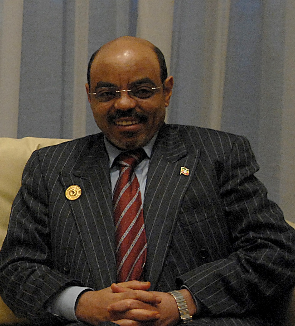 Meles Zenawi, Prime Minister of Ethiopia at a bilateral meeting during the 11th Ordinary Session of the Assembly of the Union at the African Union Summit July 1, 2008, in Sharm El Sheikh, Egypt.